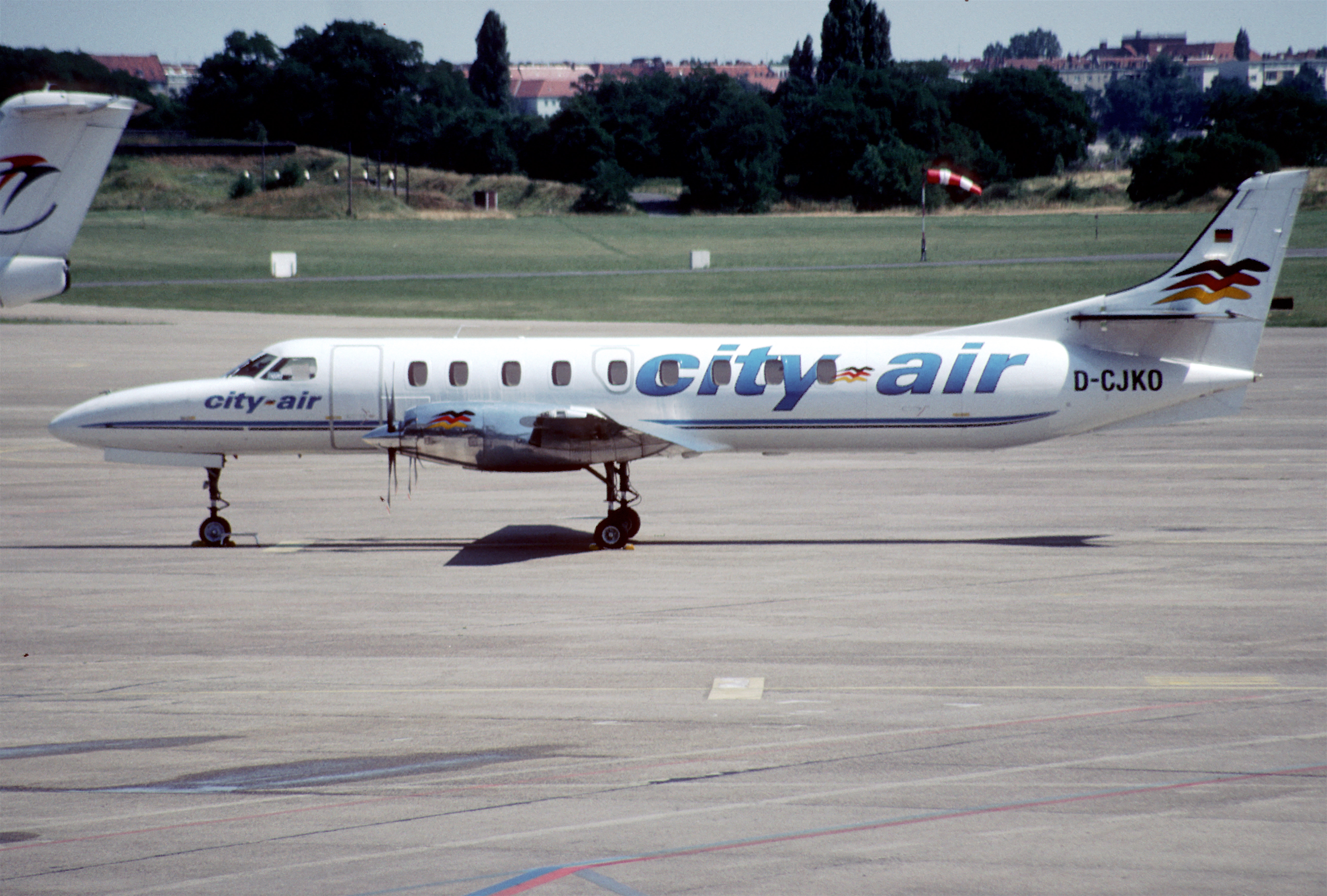 182aa - City Air Fairchild SA227DC Metro 23; D-CJKO@THF;16.07.2002